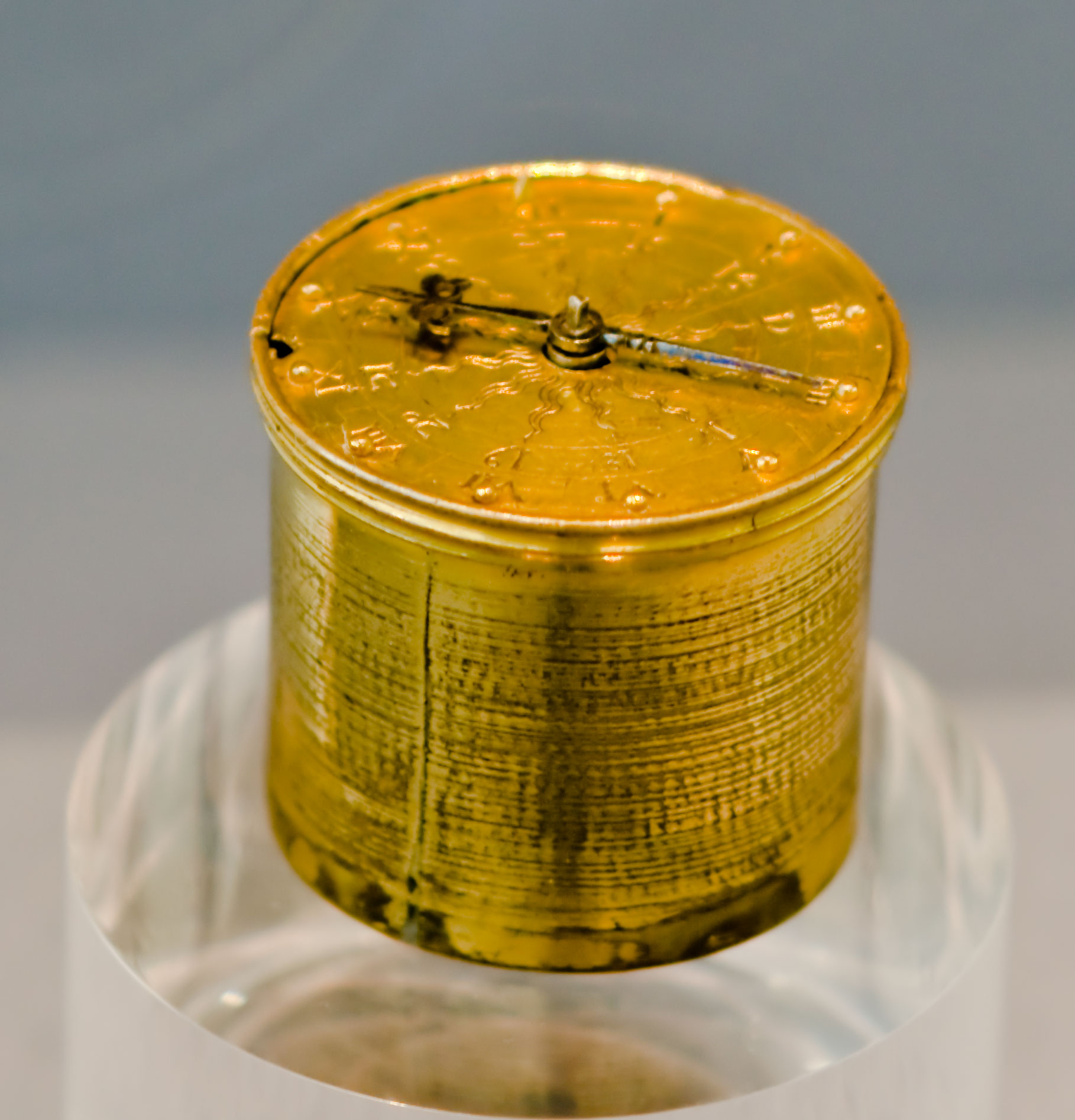 The so-called "Henlein-watch" (Heinlein-Uhr) of Germanisches Nationalmuseum, Nuremberg. Named for Peter Henlein and possibly originating in his workshop, the direct association of this watch with Henlein has long been controversial.[1]